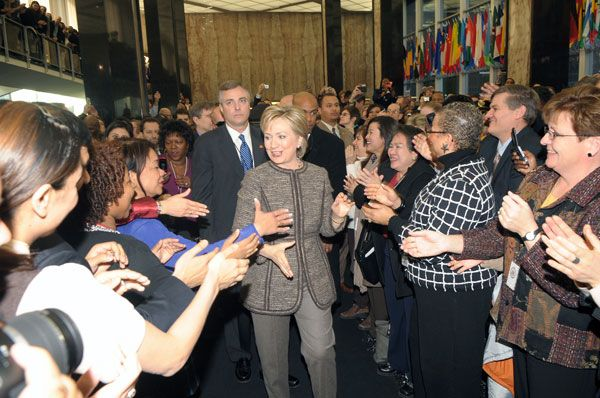 Secretary of State Hillary Clinton is greeted by excited Department employees during her arrival on her first day.